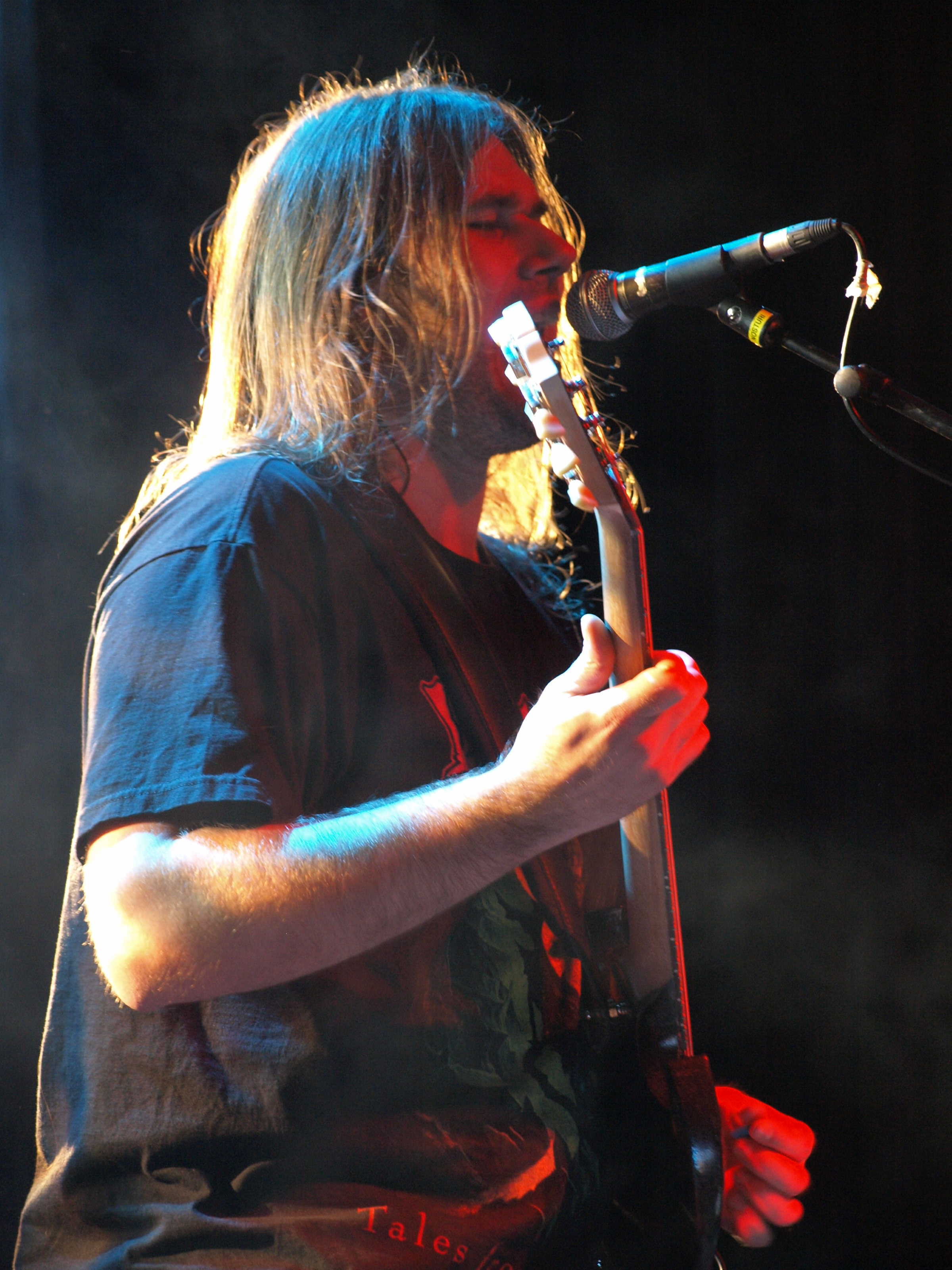 Swedish progressive metal band Nightingale live at Nosturi, Helsinki